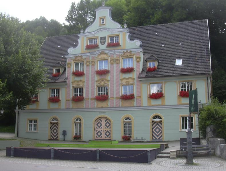 Town hall of Königsbronn, Germany